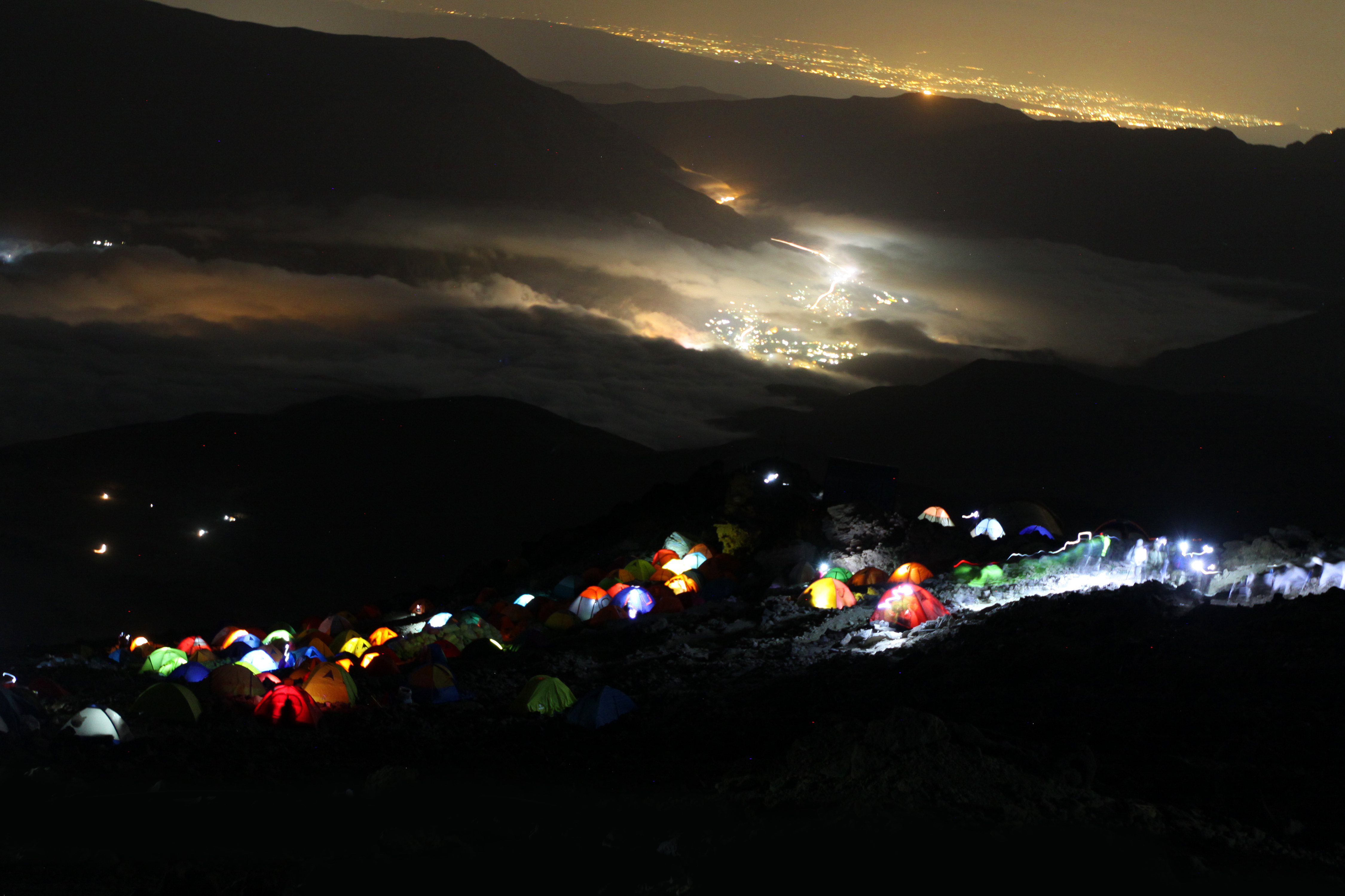 Damavand mountain, the third court (4250m, the south face), August 15, 2018 Photo by: Safa Daneshvar